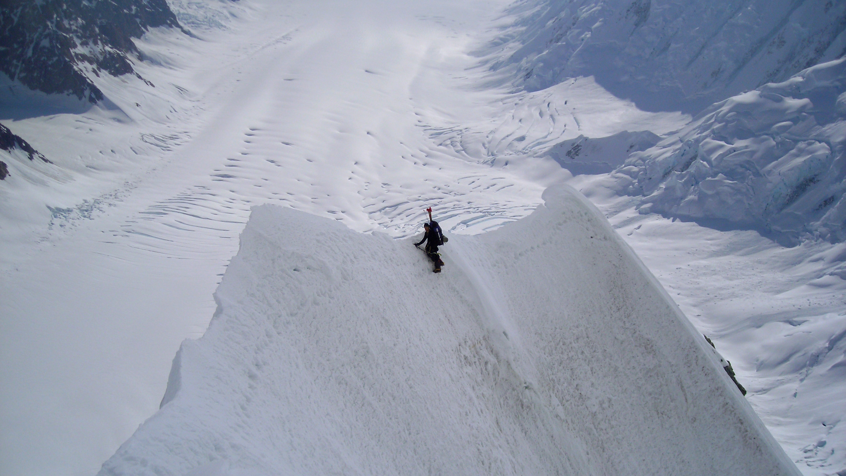 Mount Logan climbing on knife ridge, east ridge. Photo by Christian Stangl (flickr)